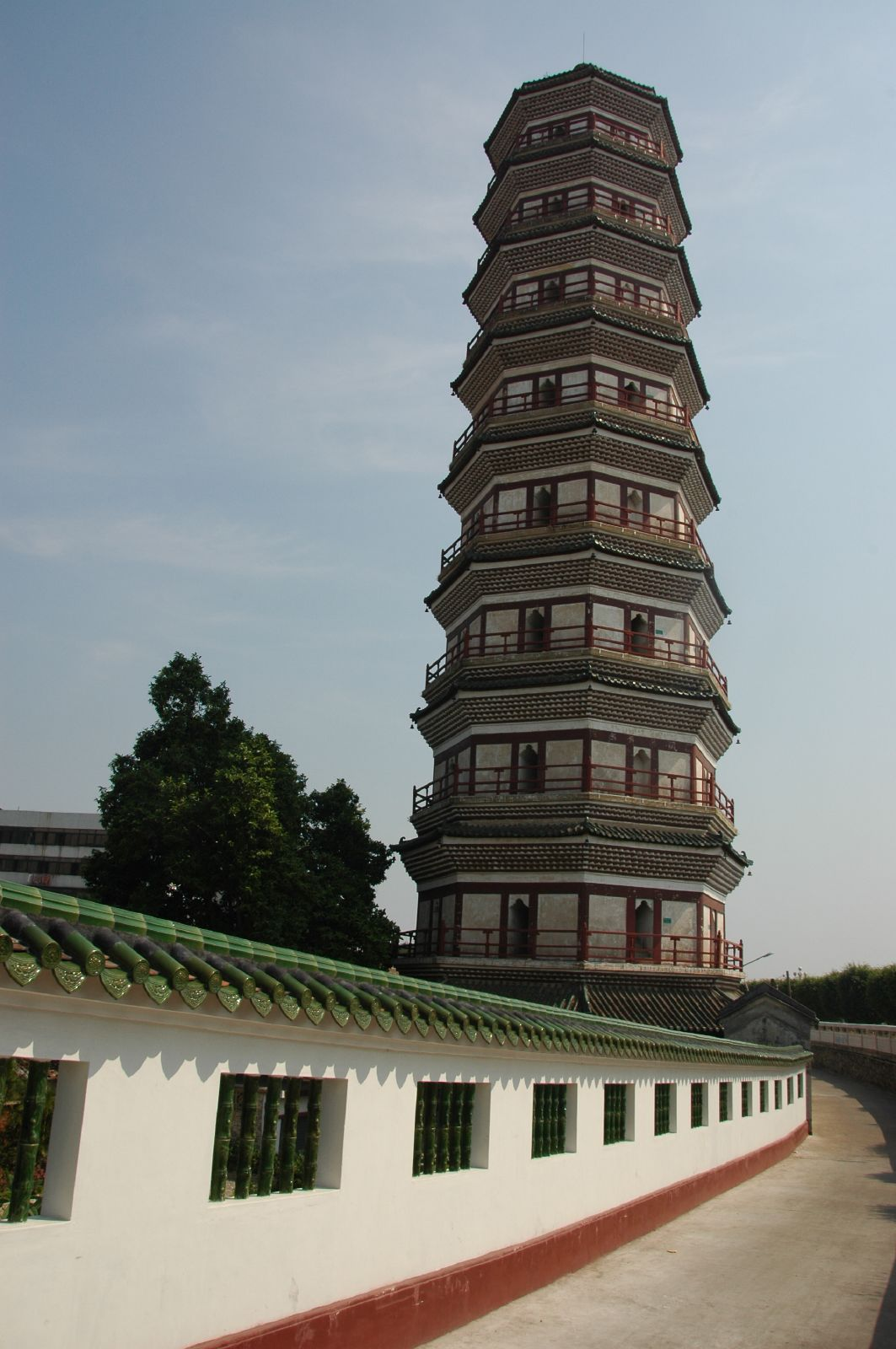 Chongxi Pagoda, Zhaoqing, China